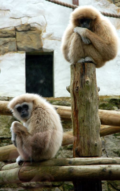 Monkeys at Chessington Zoo